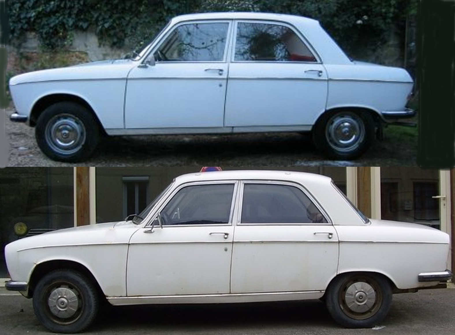 Comparison between Peugeot 204 and 304 (early model - later 304s have their own squared off roof profile)